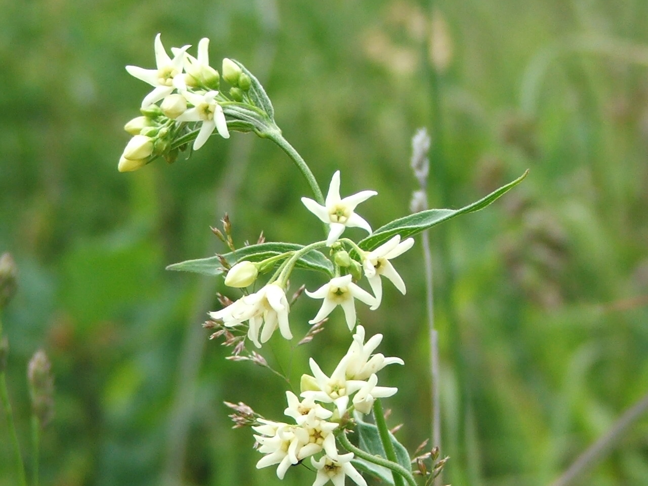 Vincetoxicum hirundinaria (syn. V. officinale)